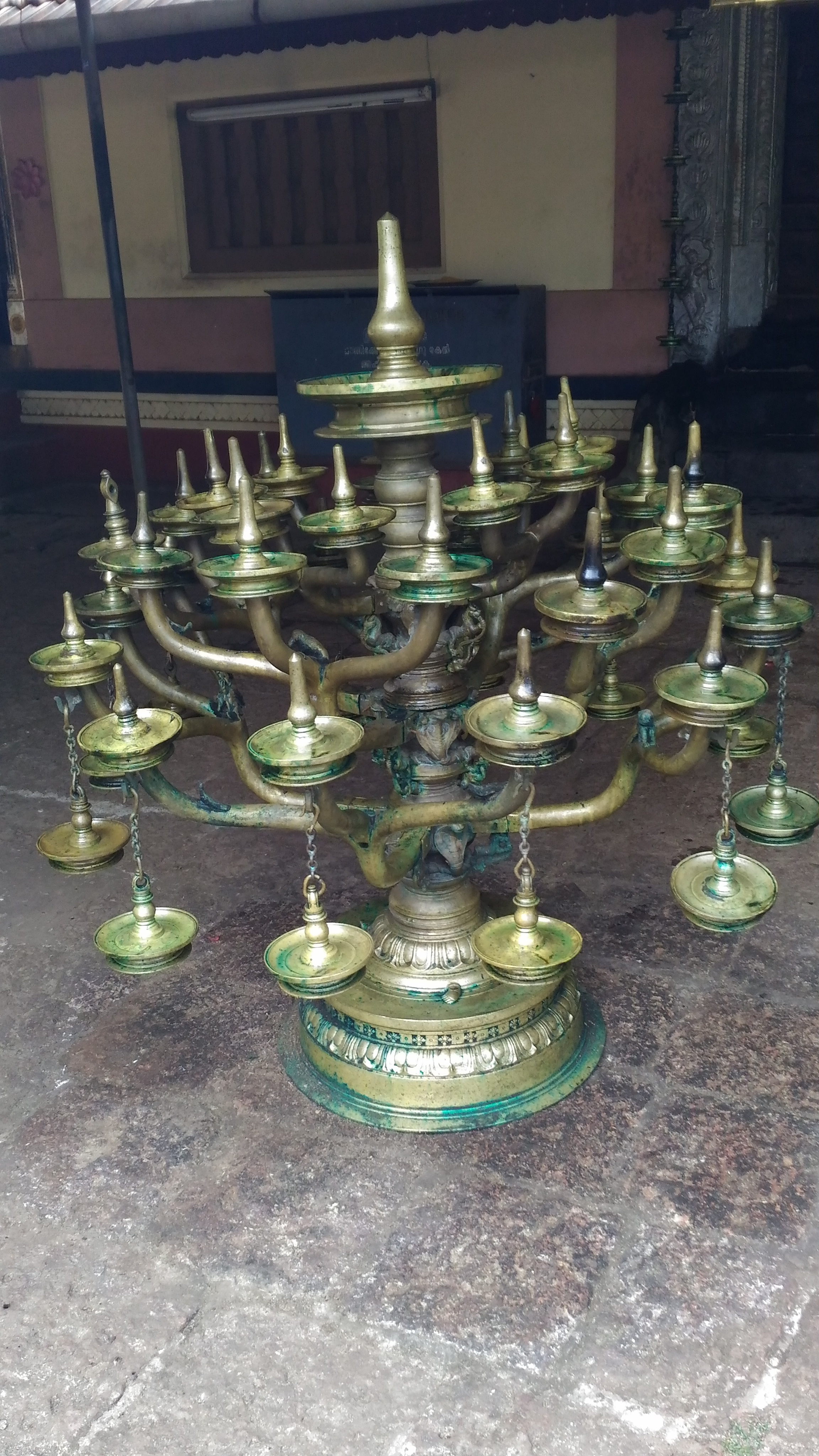 Bronze lamp used in Temples.Known as Aal Vilakku or Kavara Vilakku